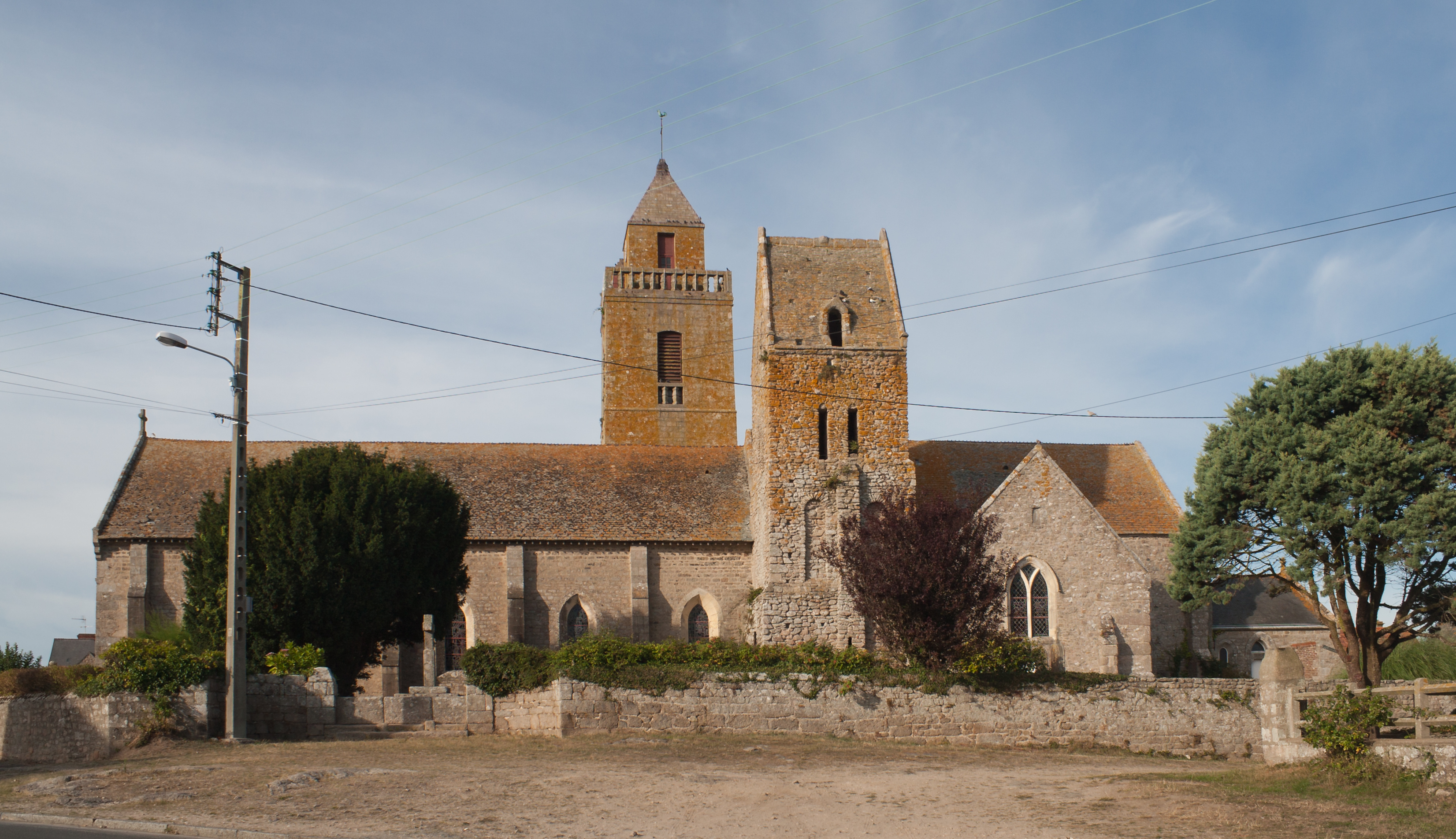 South view of the parish church.